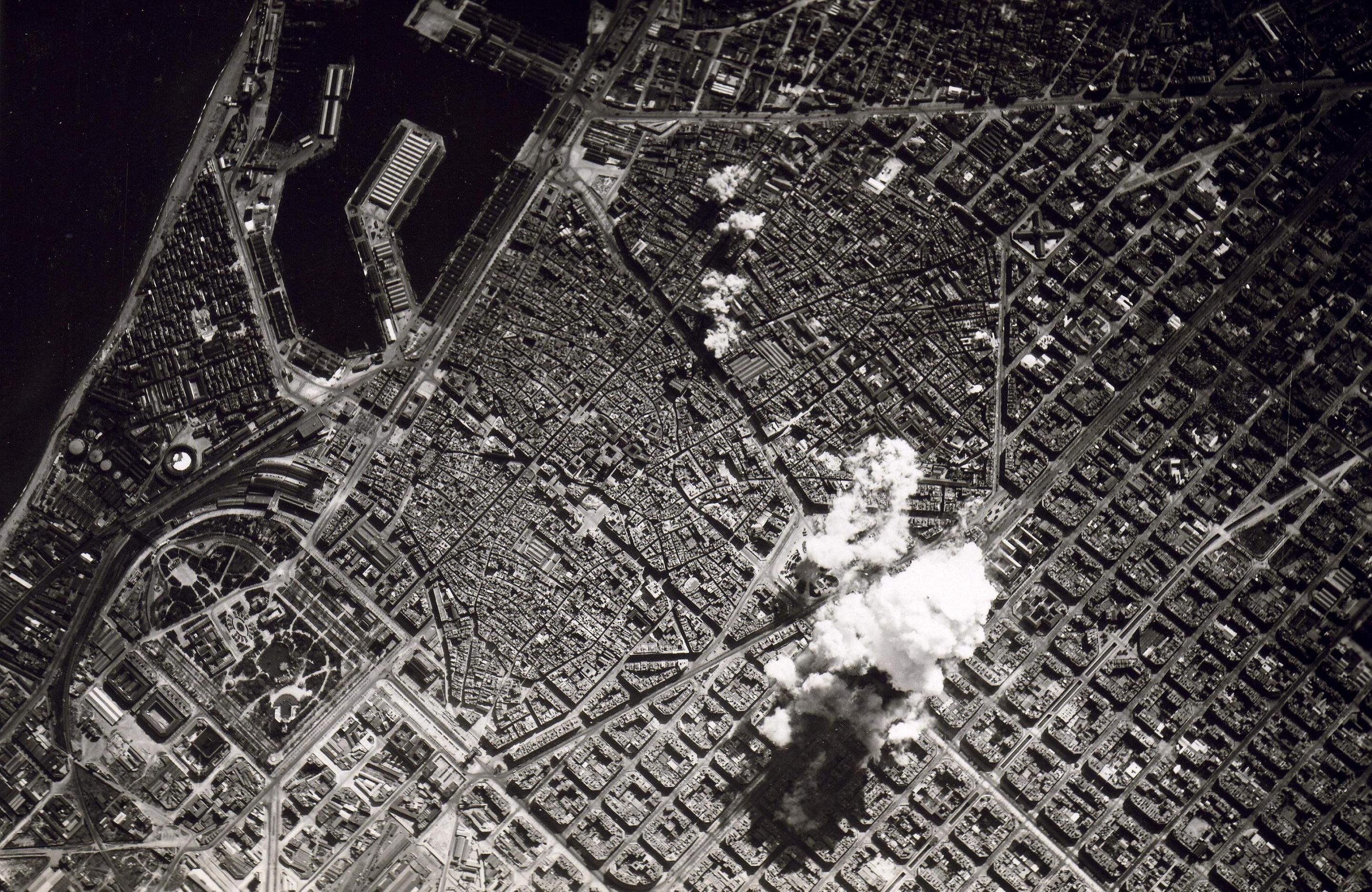 Aerial bombing of Barcelona, 17 March 1938, by the Italian air force.